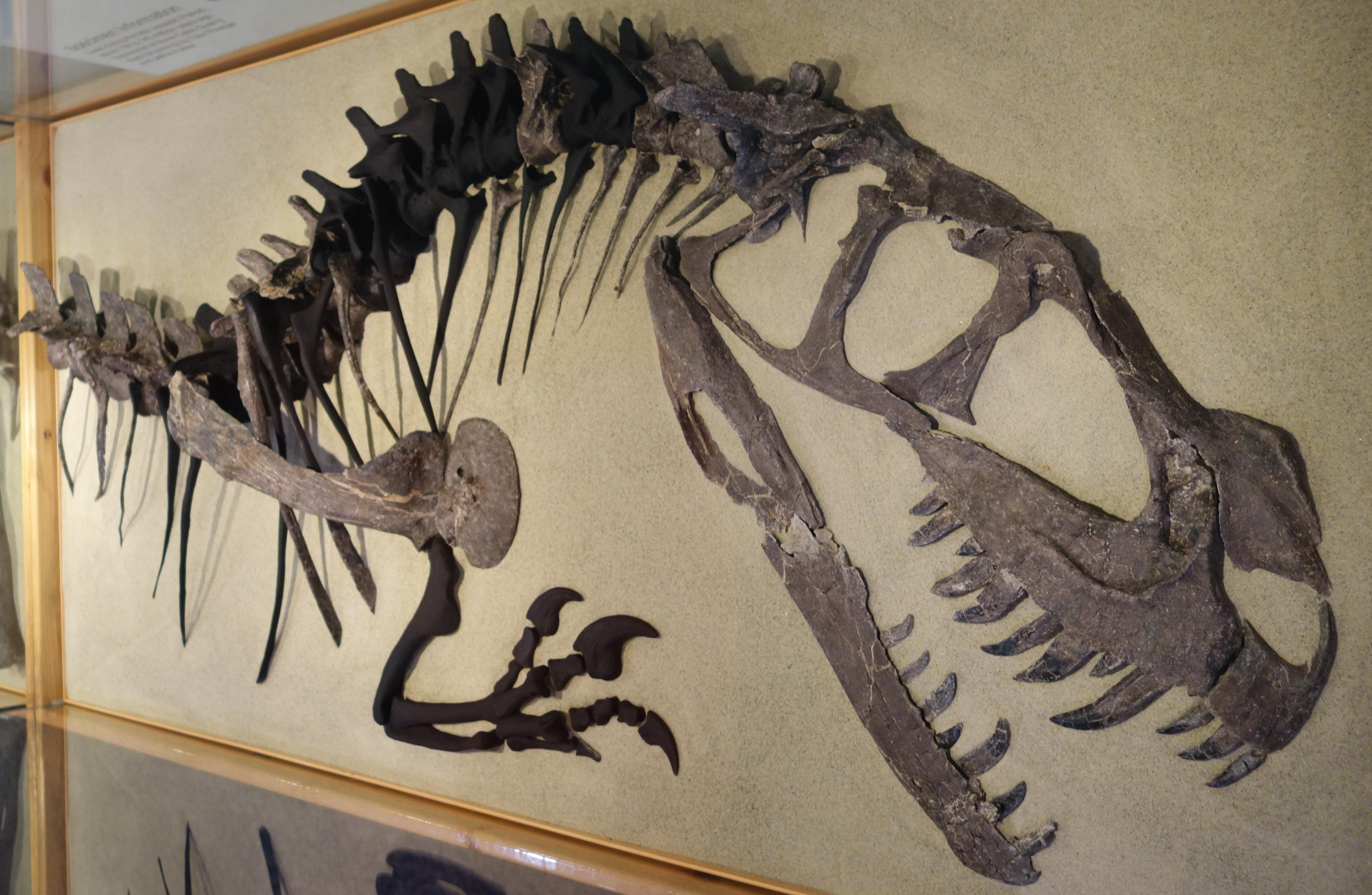 Anterior part of a fragmentary skeleton of a juvenile specimen of Ceratosaurus from Bone Cabin Quarry, Wyoming, on display at the North American Museum of Ancient Life, Lehi, Utah.